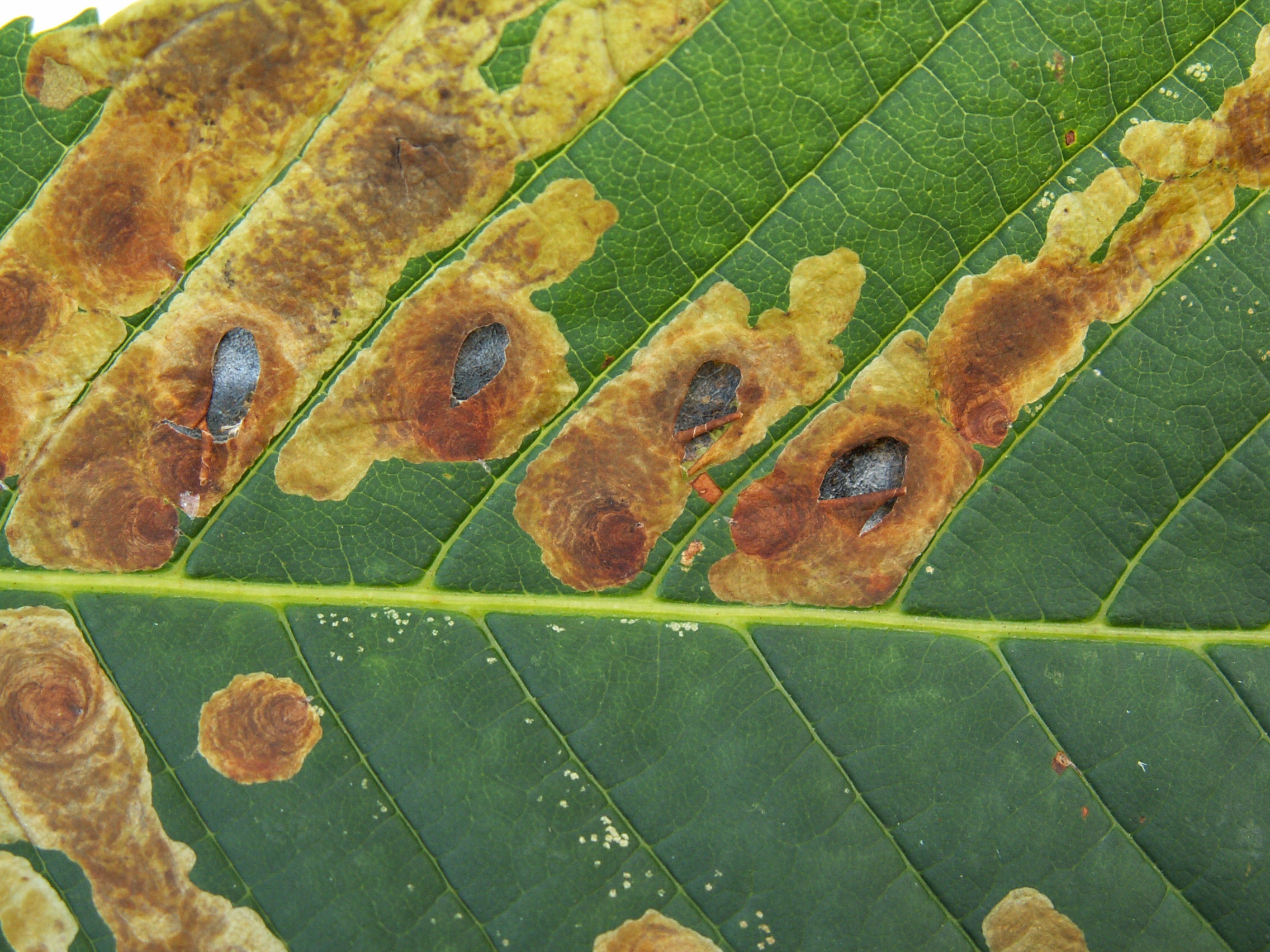 Cameraria ohridella